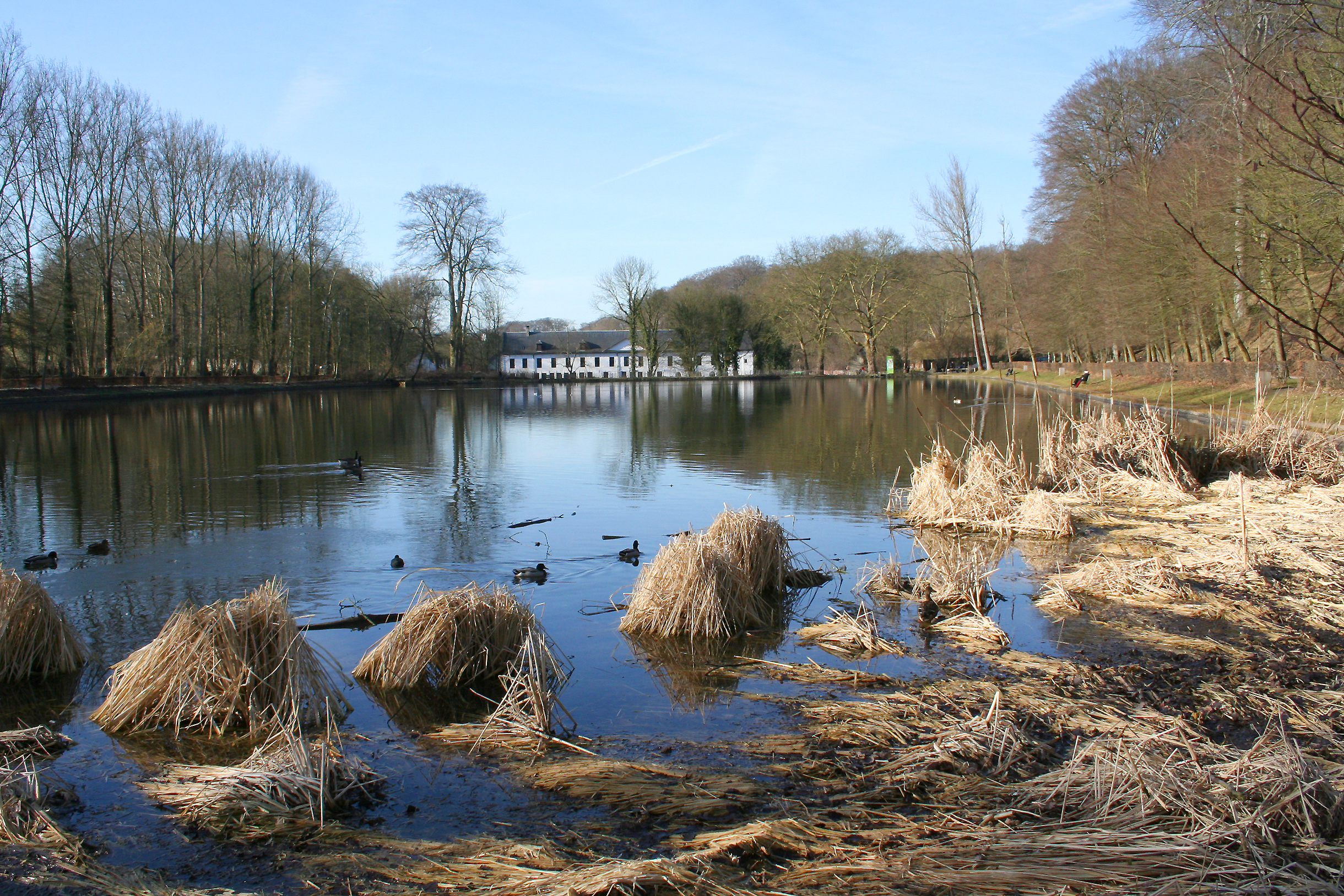 Auderghem (Belgium), the Watermill Pond and the buildings of the Rouge-Cloître (Red Cloister) Abbey founded in the XIVth century by the hermit Egide Olivier and the canon Guillaume Daniels.